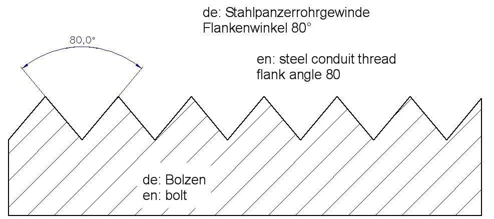 steel conduit thread